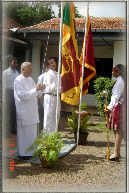 Run Up flags